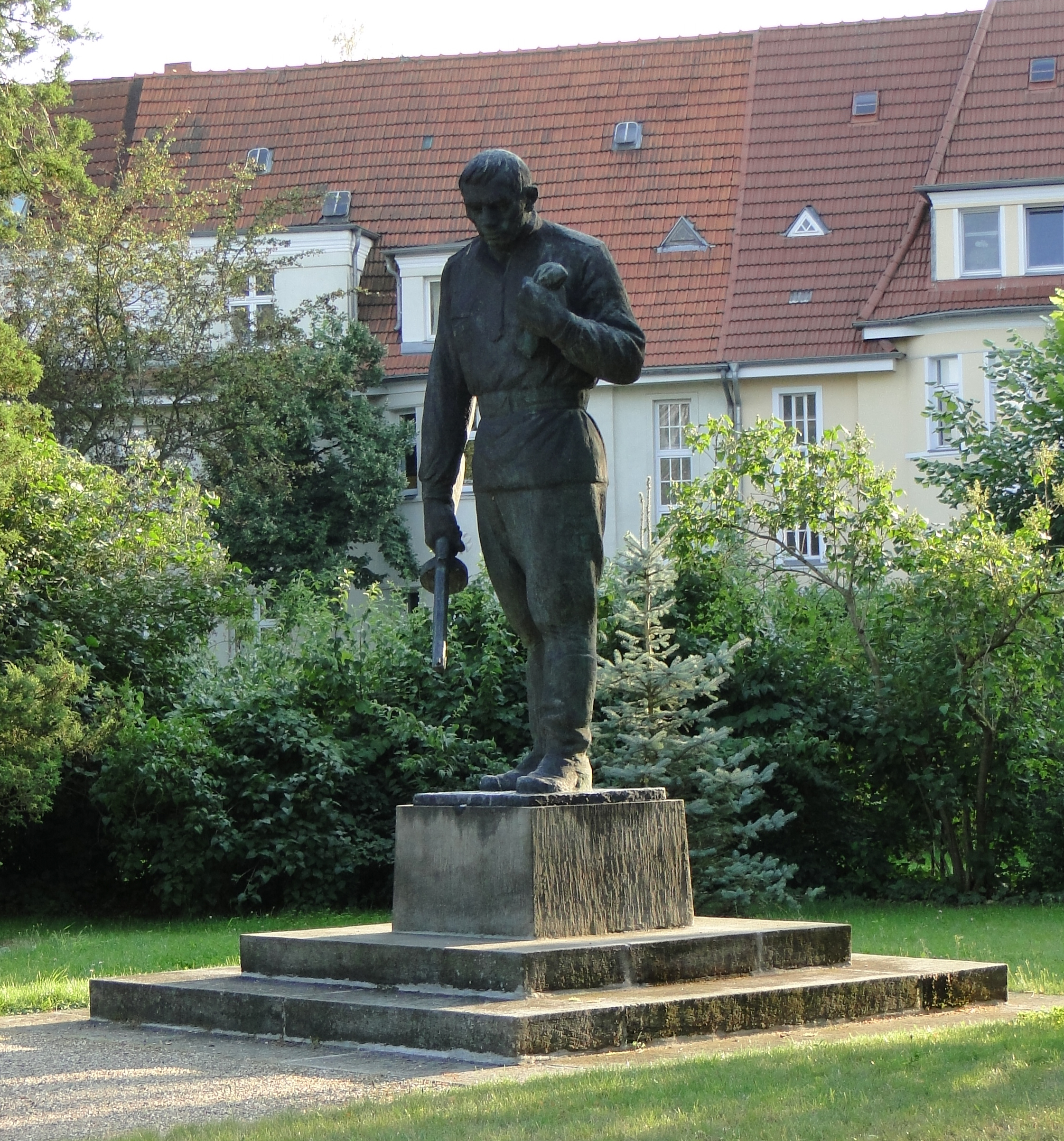 Cemetery for the victims of facism in Schwerin, Mecklenburg-Vorpommern, Germany